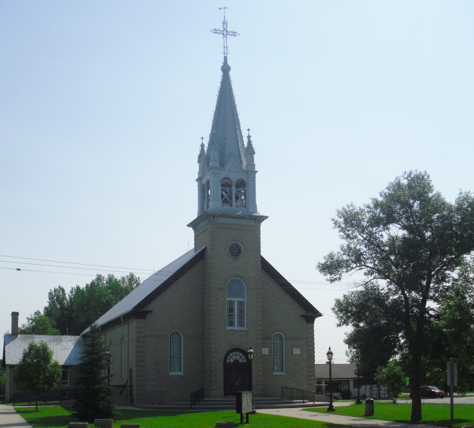 This is the Notre-Dame de Lorette in Lorette Manitoba. It was constructed and completed in the small french village by 1900 at a cost of $25,000.